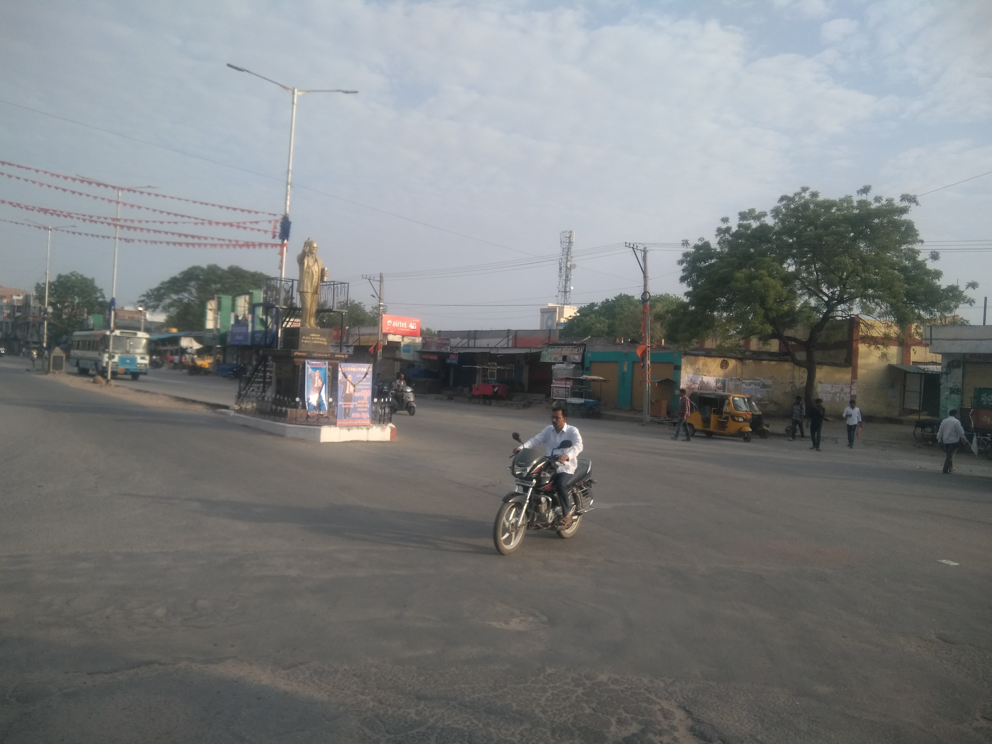 Jangaon